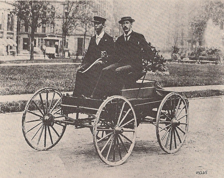 Charles Brady King demonstrates his car in Detroit on March 7, 1896, 3 months before Henry Ford makes his first car. King is at the tiller. Oliver E. Barthel is the passenger.